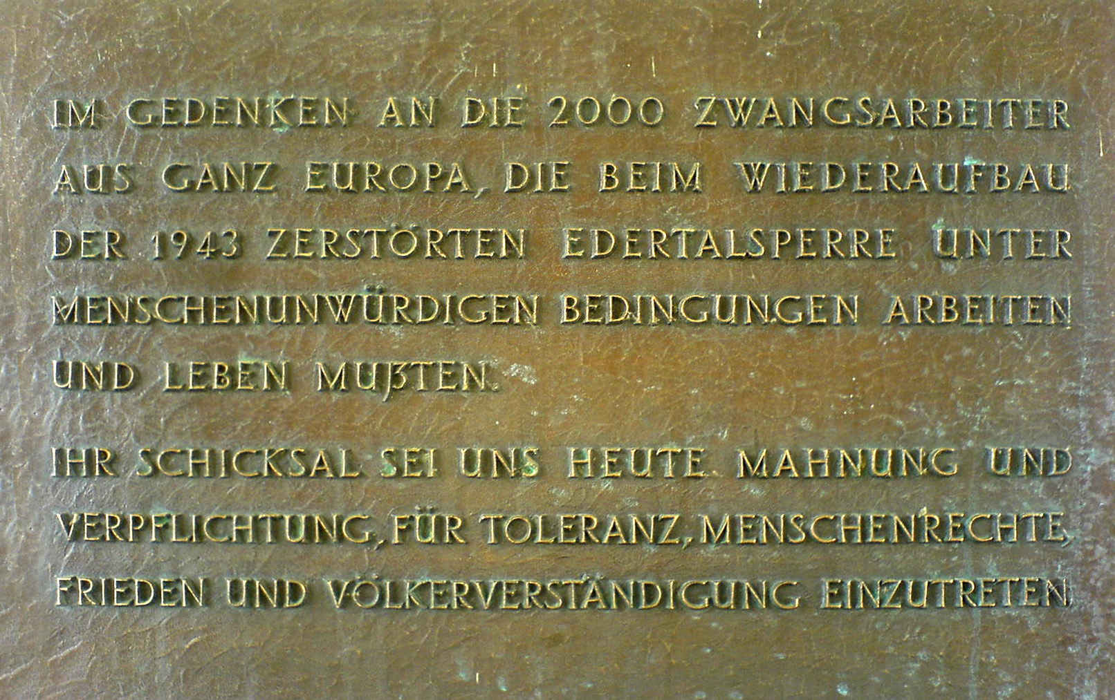 Memorial plaque for forced labourers working to repair the bombed dam at Lake Edersee in 1943